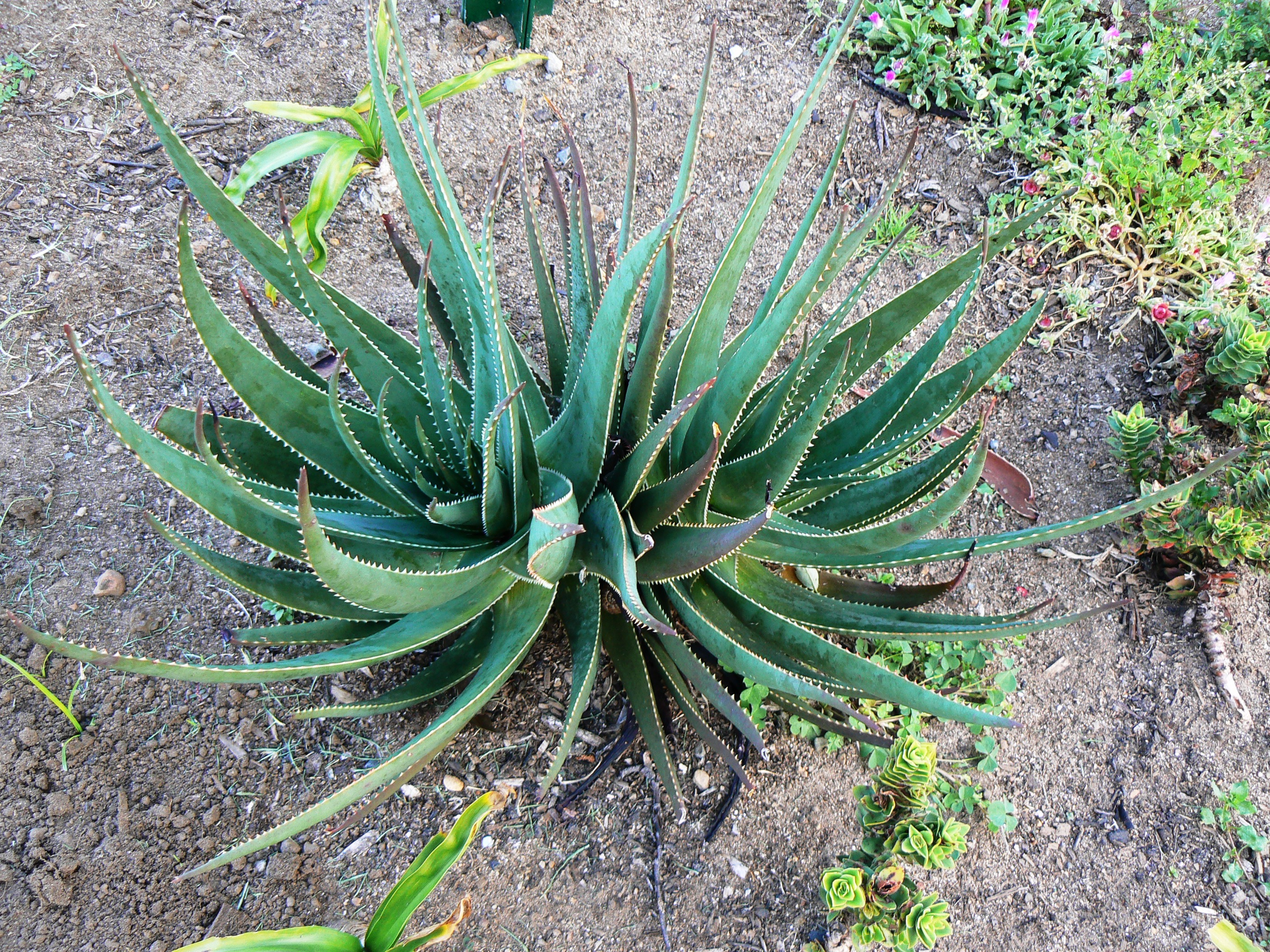 A small Fynbos Aloe or Aloe succotrina. Photo taken on Table Mountain.